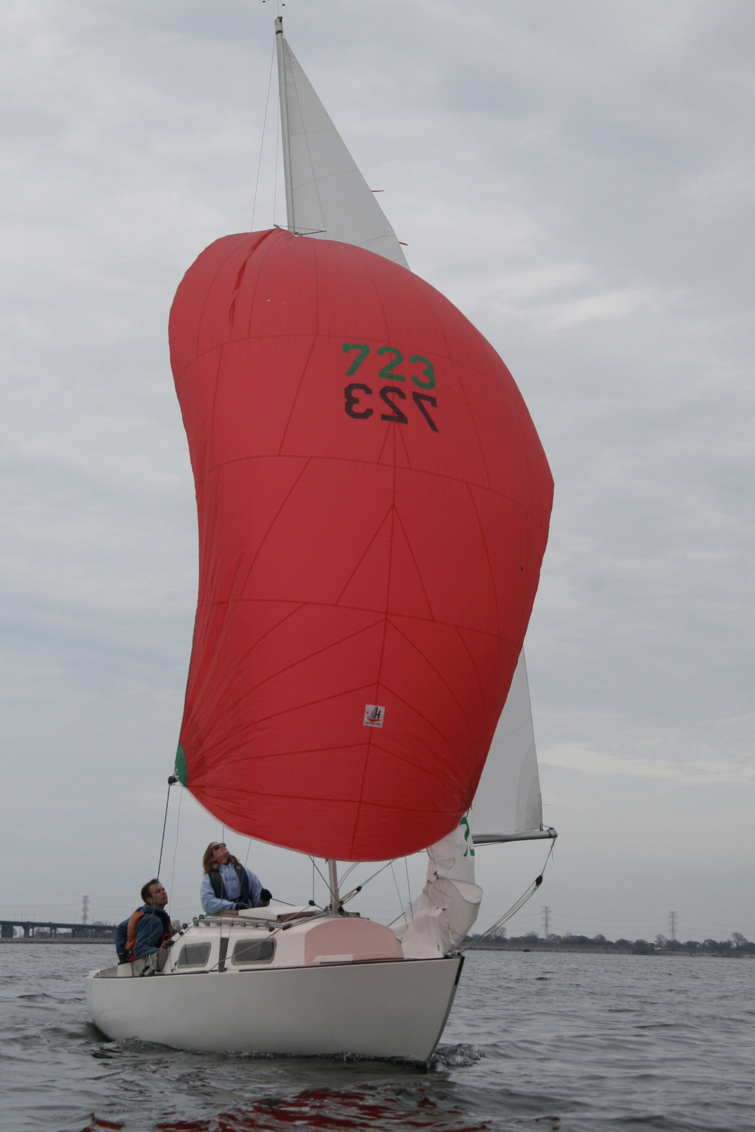 Shark 24 keelboat